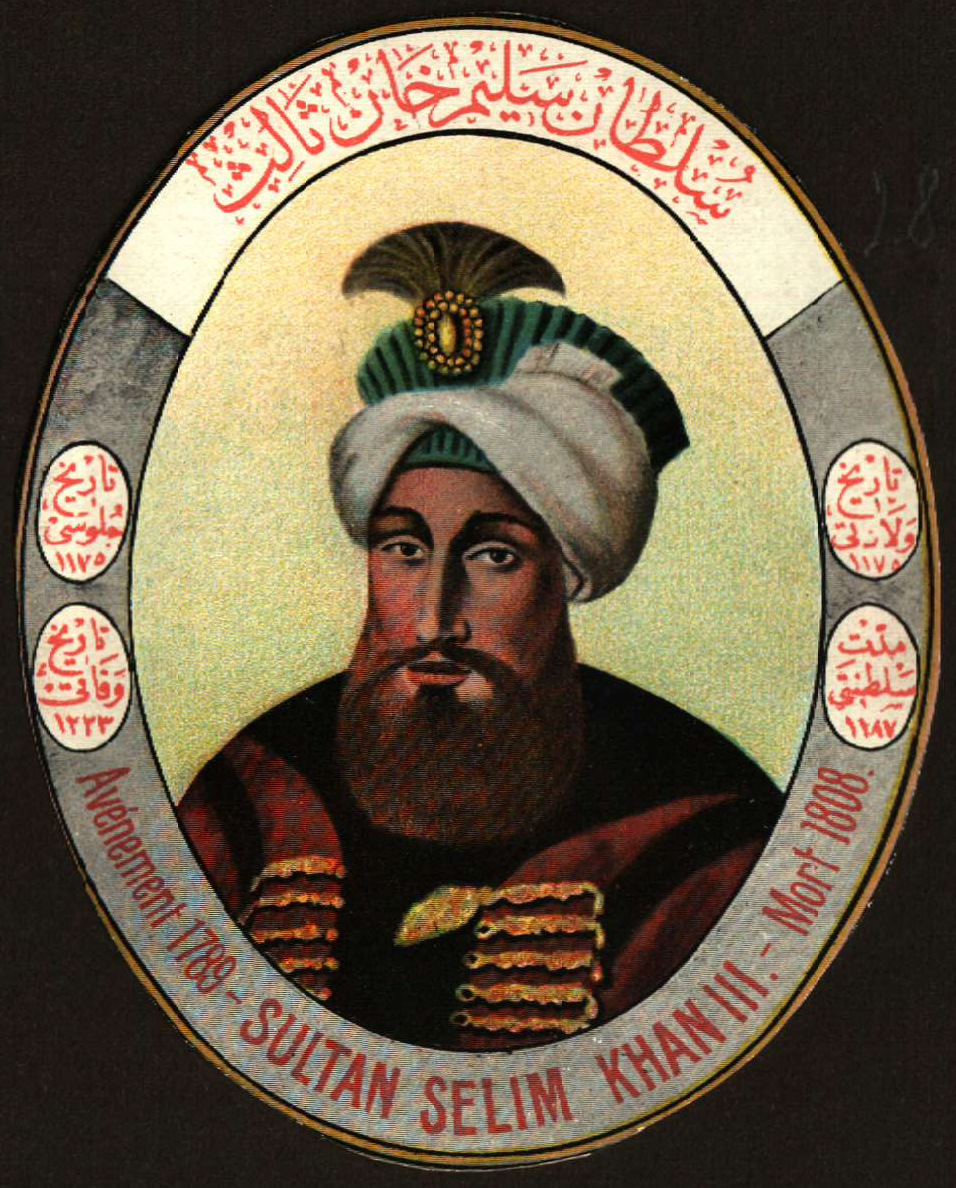 Selim III